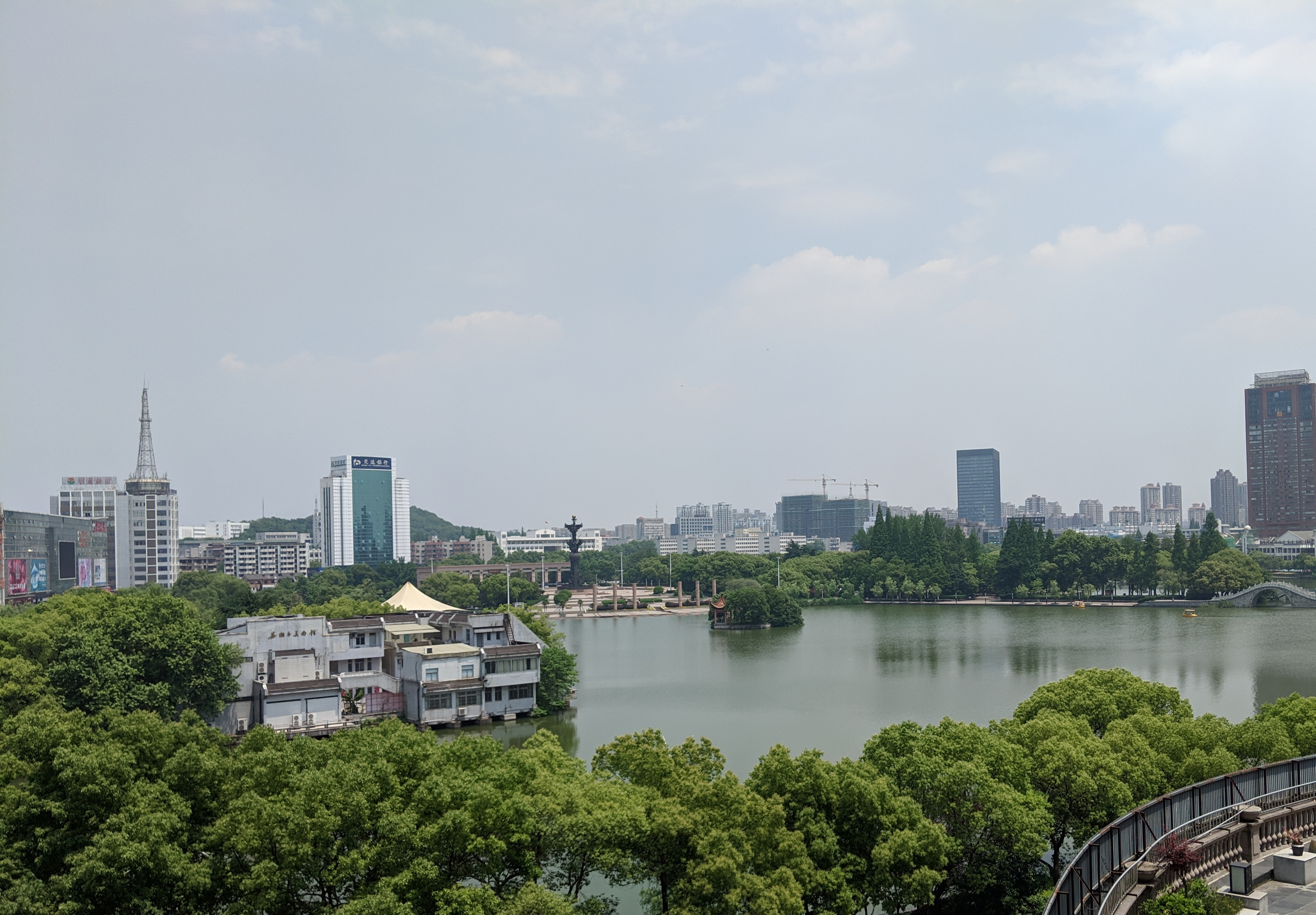 Jinghu Park